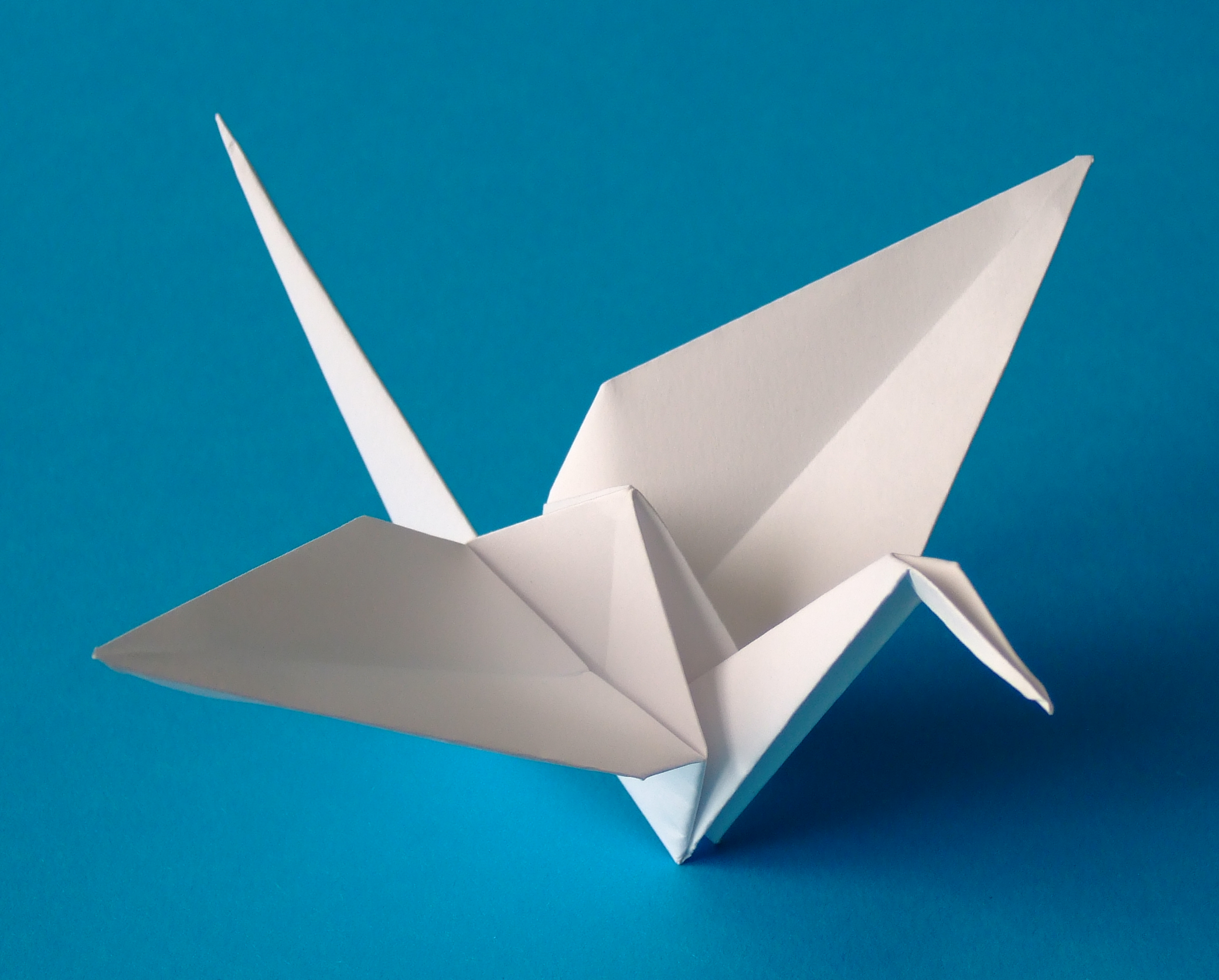 Origami crane folded from one uncut square of paper